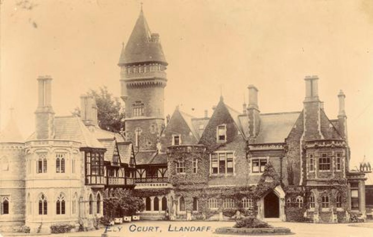 Ely Court, Llandaff, Wales, (now Insole Court), home of James Harvey Insole (1821-1901), commenced in 1855, extended in 1870s and again in 1898-9 (new work shown left of picture), prior to 1905 extensions. Original photograph taken c.1899-1900 and postcard therefore first published 1899-1904. Research: original photographer unknown but Peter Davis Collection advised that "the postcard is by Hardings, (Bristol) 'Solar Series', 1/2d postage and thus published before 1918. As such the initial copyright may be assumed to have lapsed".